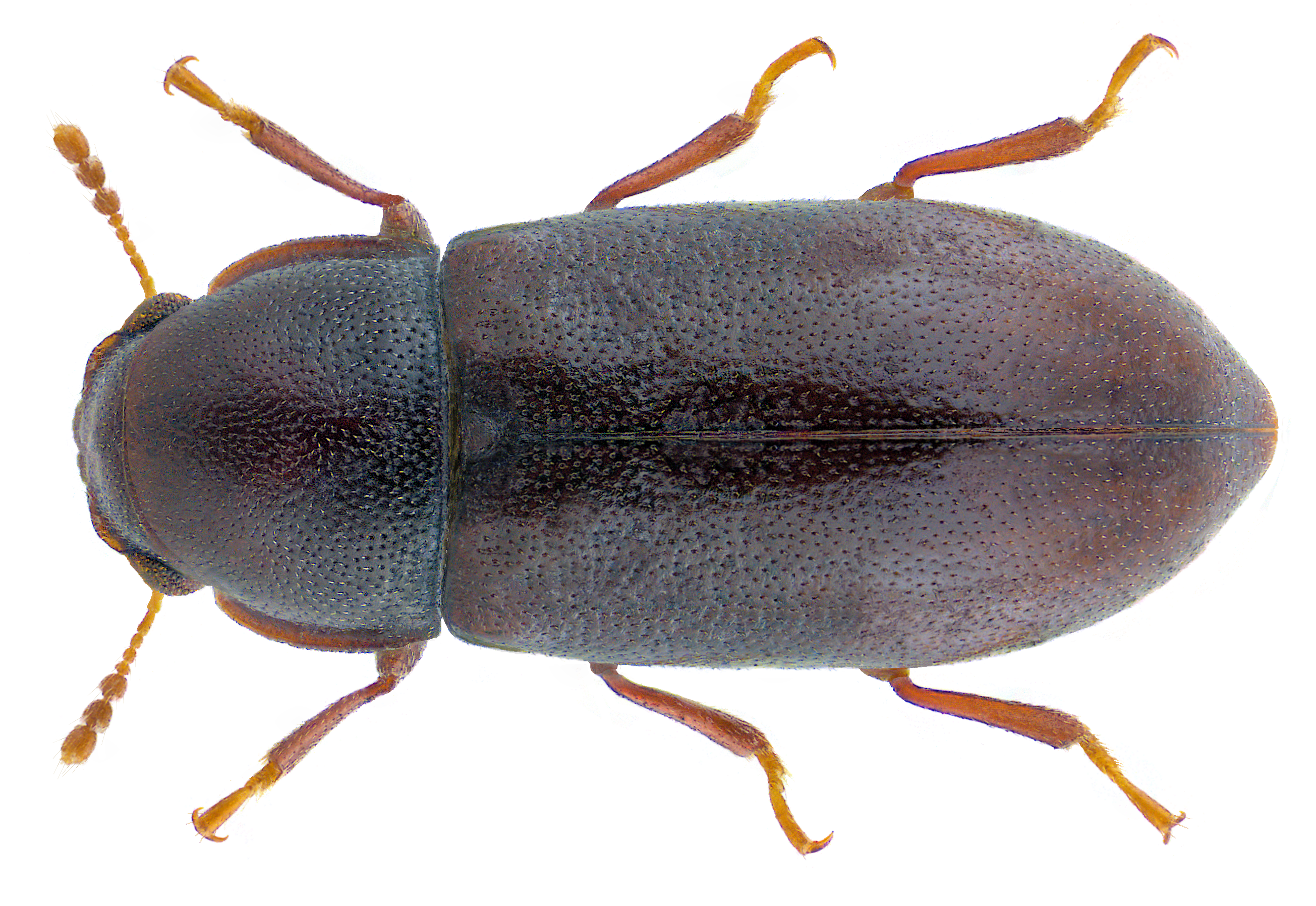 Family: Ciidae (Cisidae) Size: 2.9 mm (1.8 to 2.9 mm) Distribution: Europe Ecology: In tree sponges Location: Germany, Bavaria, Upper Franconia, Kulmbach, Kessel leg.det. U.Schmidt, 17.V.1976 Photo: U.Schmidt, 2017